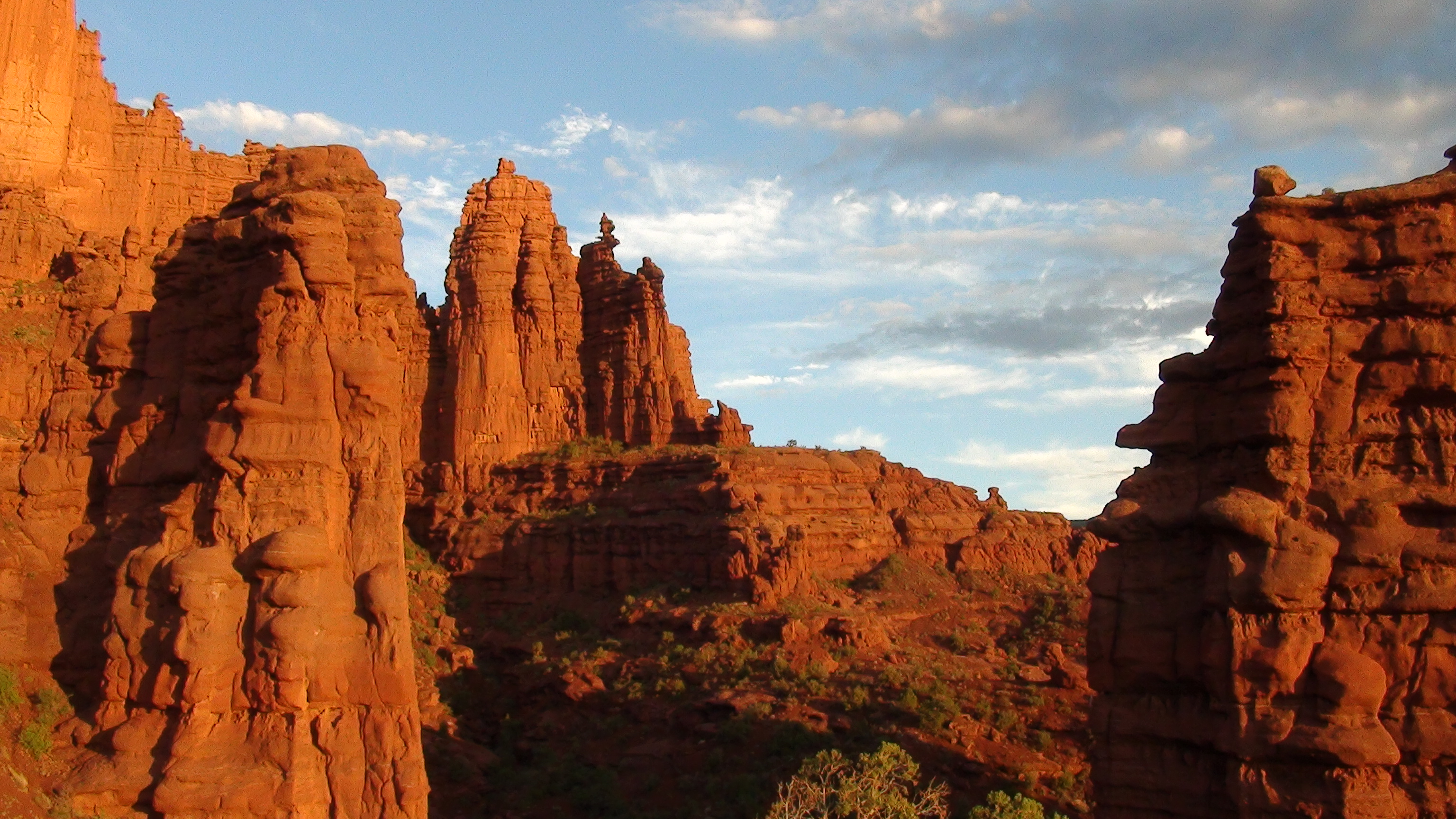 Fisher Towers, Moab, Utah at sunset